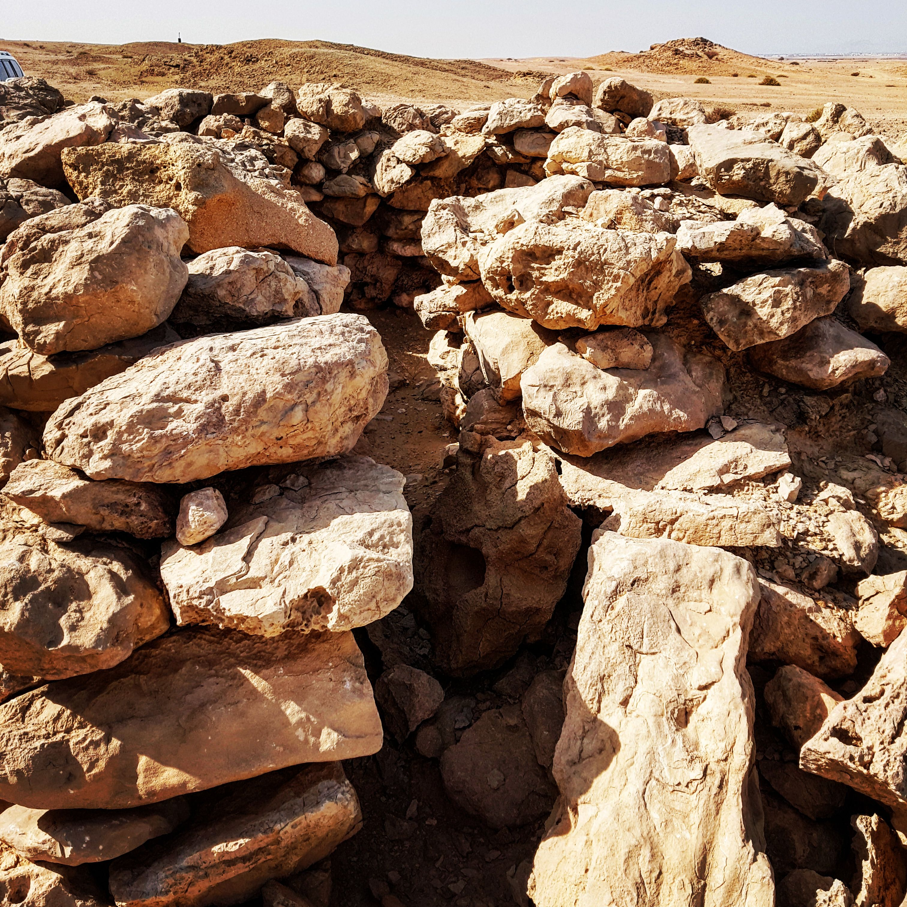 An unrestored Hafit period beehive tomb at Jebel Hafit, Al Ain. Hundreds of these tombs litter the Eastern foothills of the mountain; most have totally collapsed.